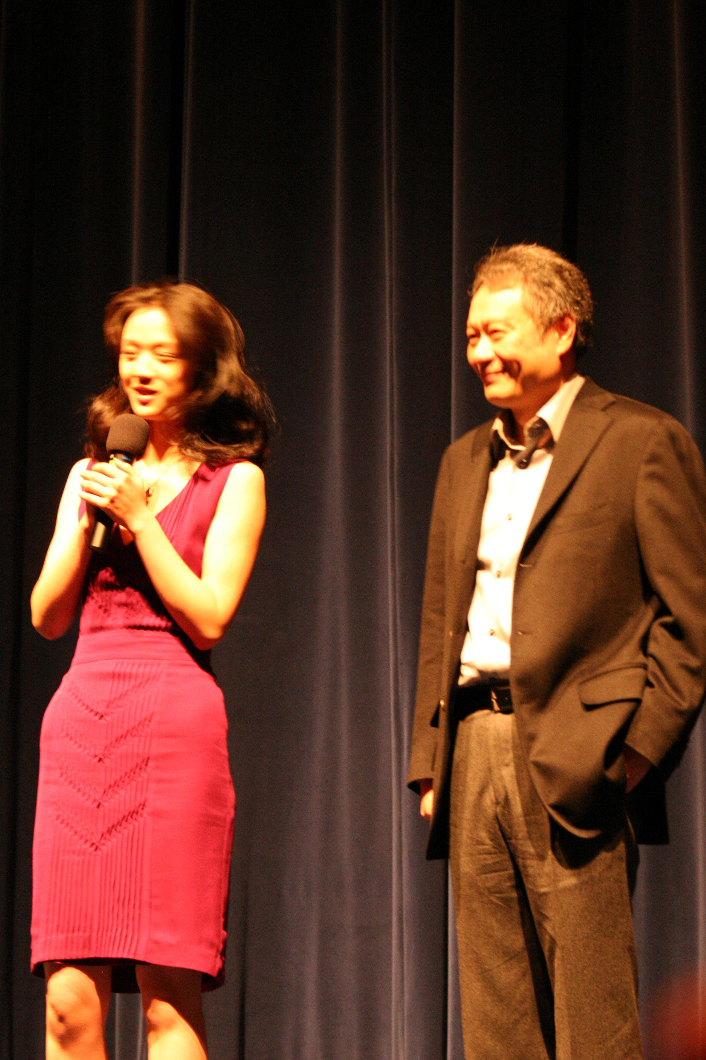 Tang Wei and Ang Lee at the Mill Valley Film Festival 2007